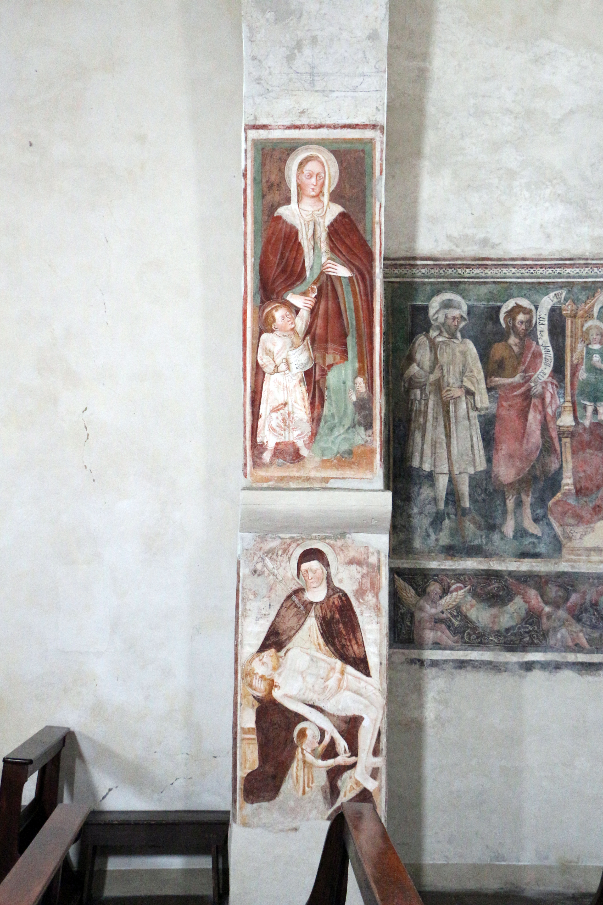 San Michele al Pozzo Bianco